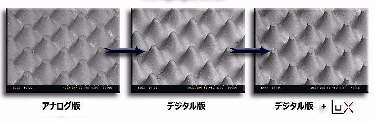 Flat Top Dot